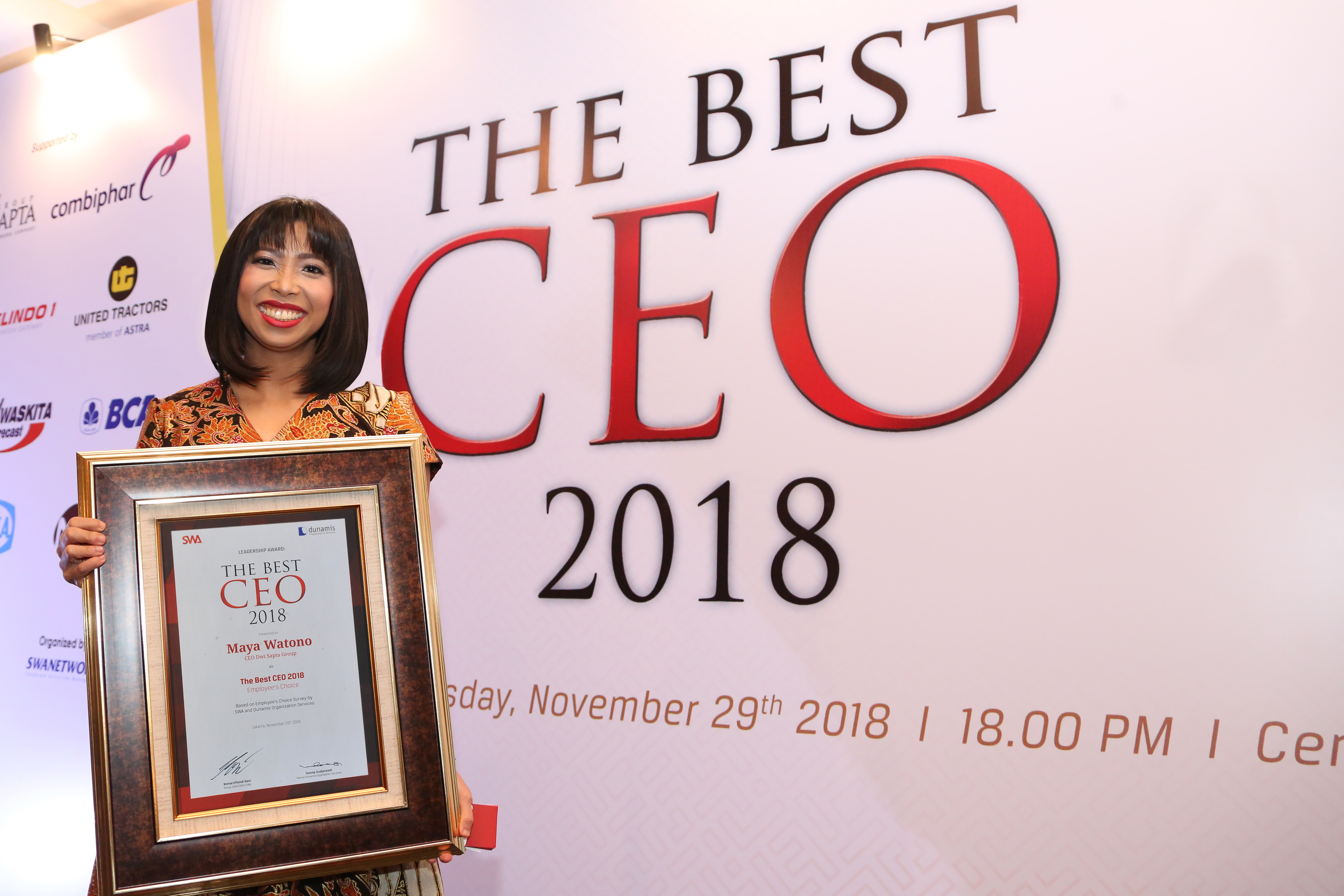 Maya Watono Best CEO 2018